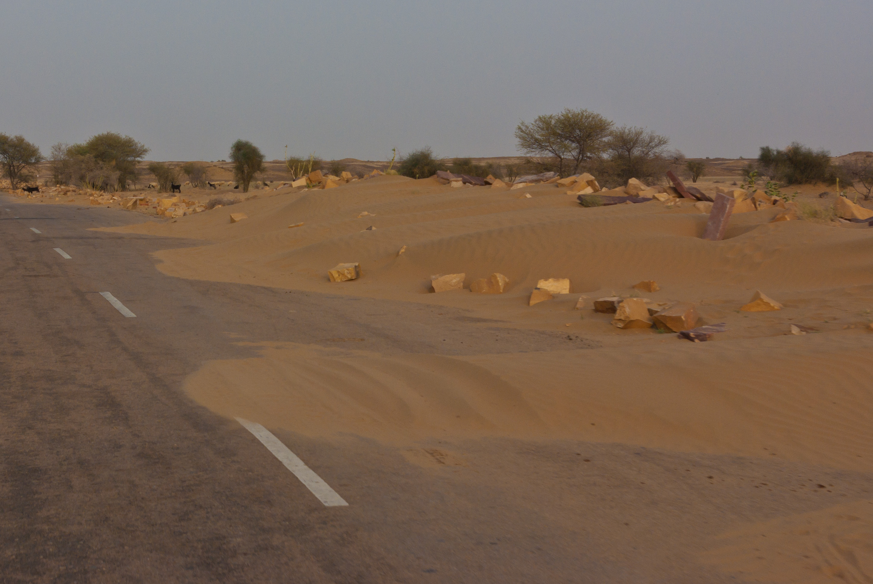 Thar Desert (near Jaisalmer)